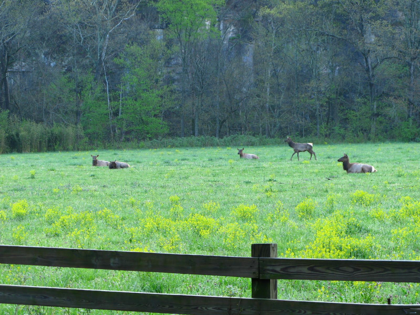 From flickr: Elk in Boxley Valley The elk were out in the fields early in the morning,on our way to float. Buffalo National River, Arkansas. Weekend with extended family, April, 2009.